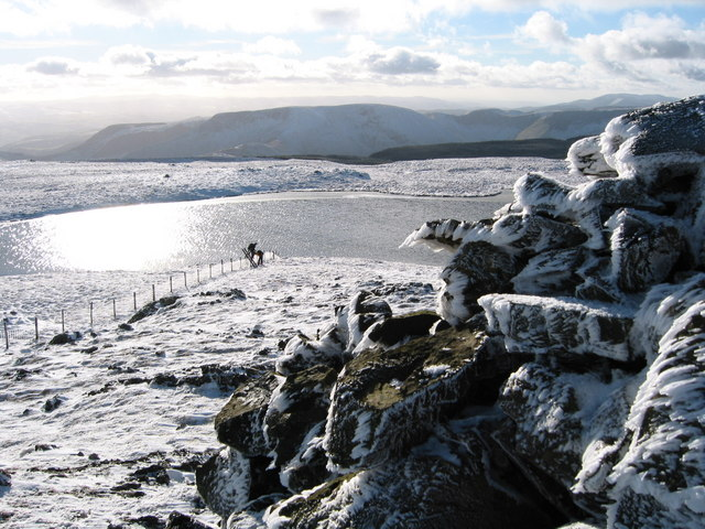 Llyn y Fign from summit cairn of Glasgwm